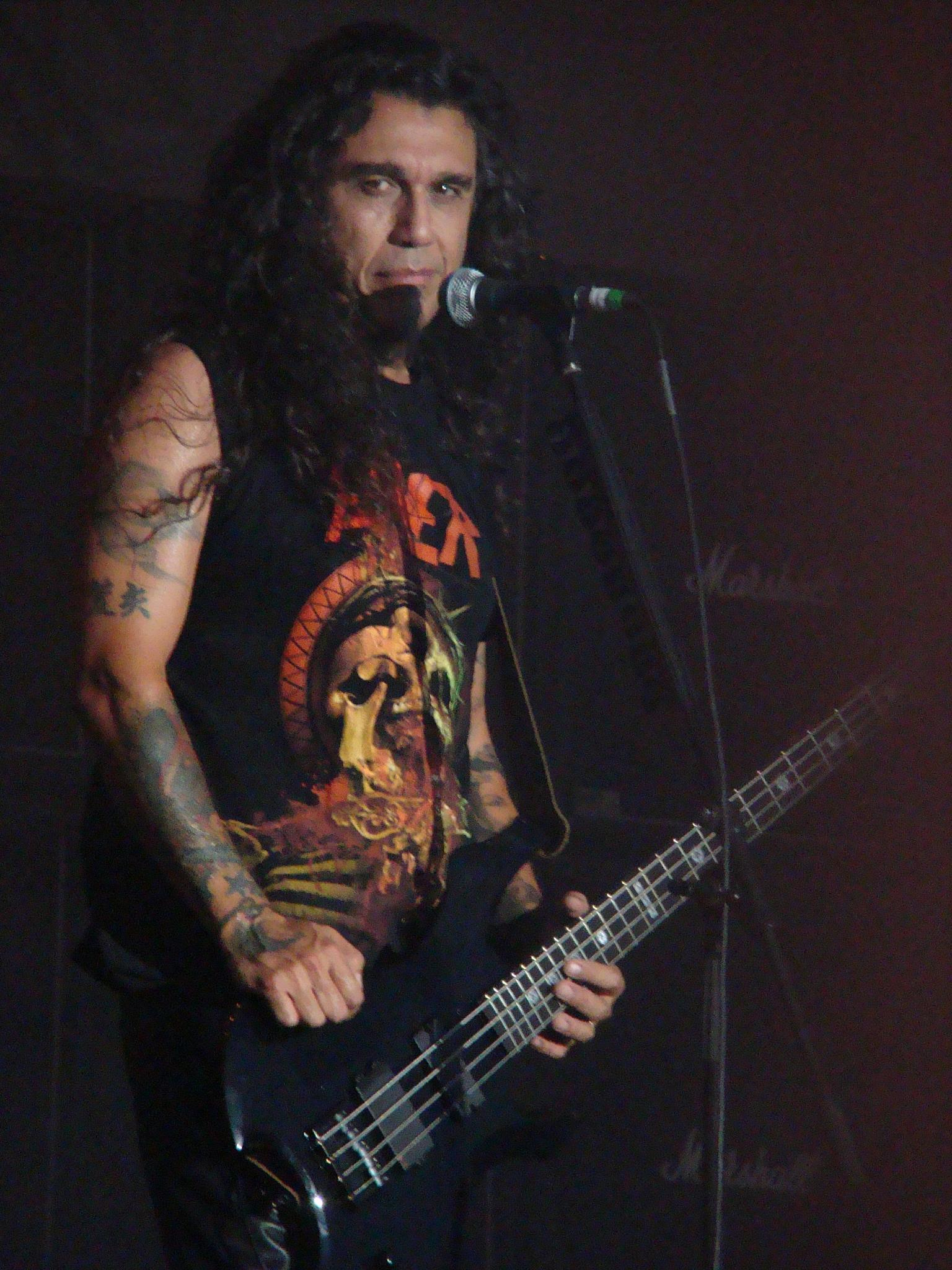 Tom Araya in Gods of Metal festival, in Bologna, Italy.